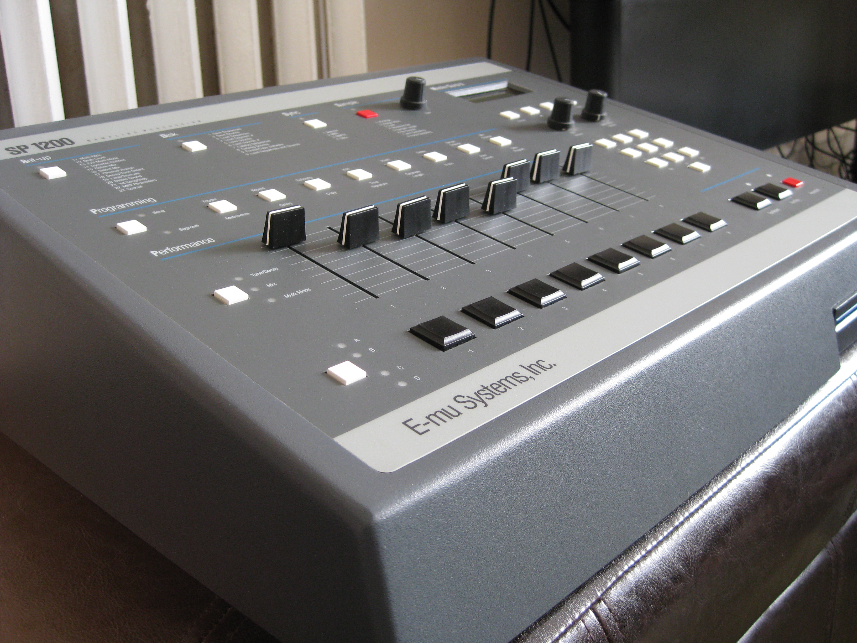 E-mu SP-1200